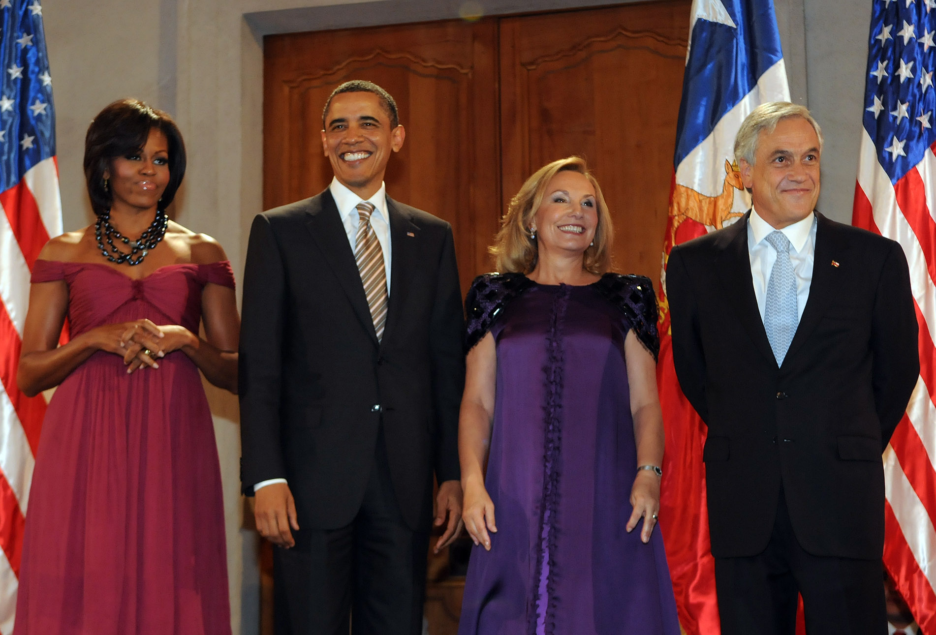 Reception at La Moneda Palace for the President and First Lady of the United States. Left to right: Michelle Obama (U.S. First Lady), Barack Obama (U.S. President), Cecilia Morel (First Lady of Chile), Sebastián Piñera (President of Chile)